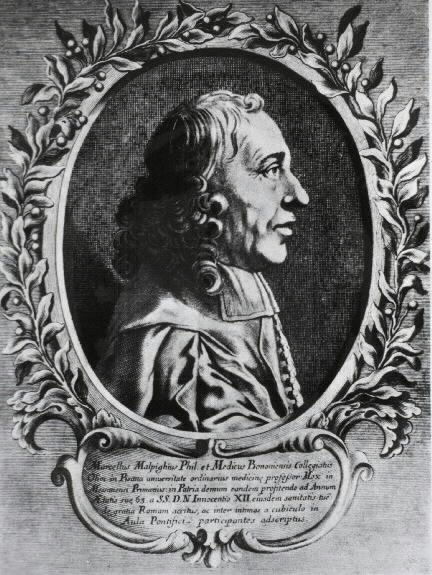 from 11:57, 27 August 2002 Magnus Manske 432x575 (78,604 bytes) (from meta)